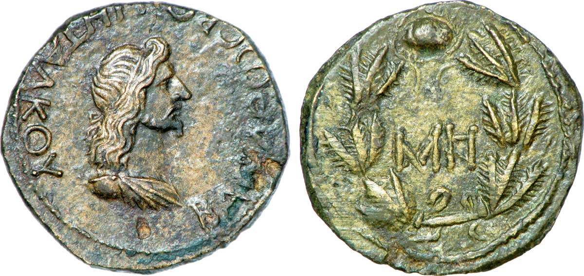 Quarante-huit nummia à l'effigie de Rhœmétalcès du Bosphore Date : c. 133-154